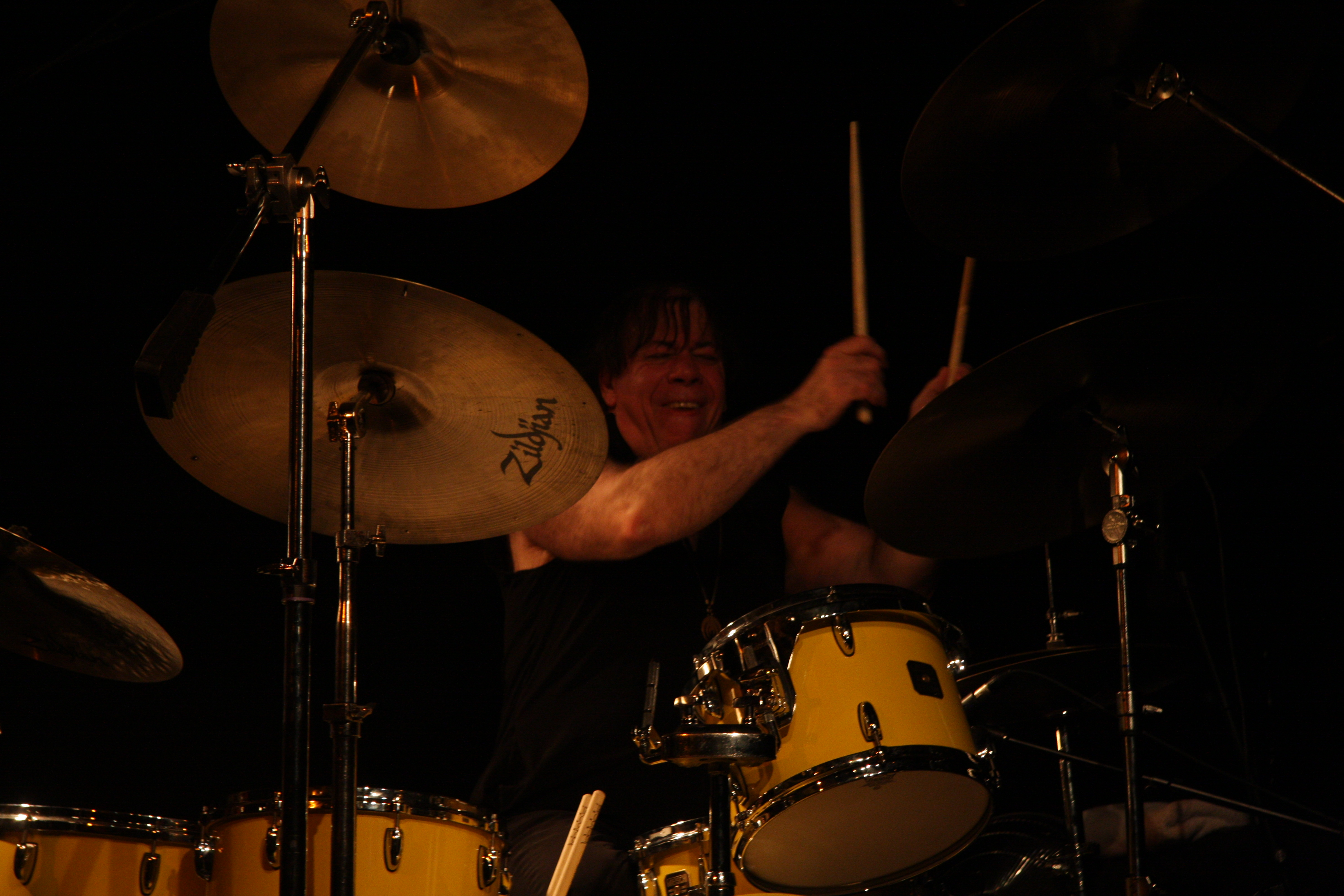 Christian Vander Quartet in the twentieth music festival Fort en Jazz in 2009 in Francheville, France. Personality rights warningAlthough this work is freely licensed or in the public domain, the person(s) shown may have rights that legally restrict certain re-uses unless those depicted consent to such uses. In these cases, a model release or other evidence of consent could protect you from infringement claims.